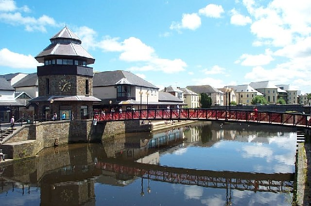 Haverfordwest. This red and black footbridge crosses the River Cleddau and gives access to a newly-developed shopping complex.